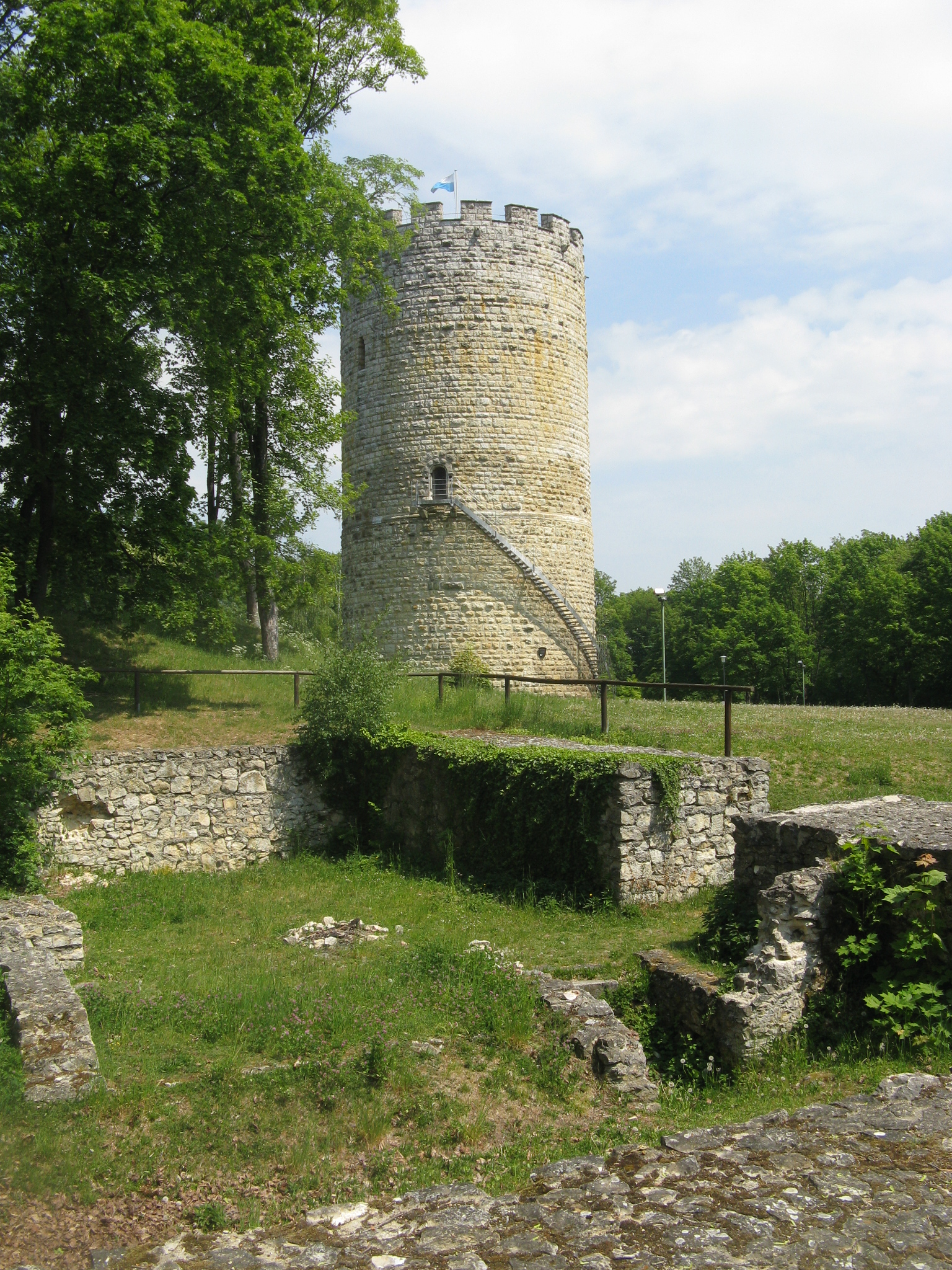 Bad Abbach, Castle, Bavaria/Germany